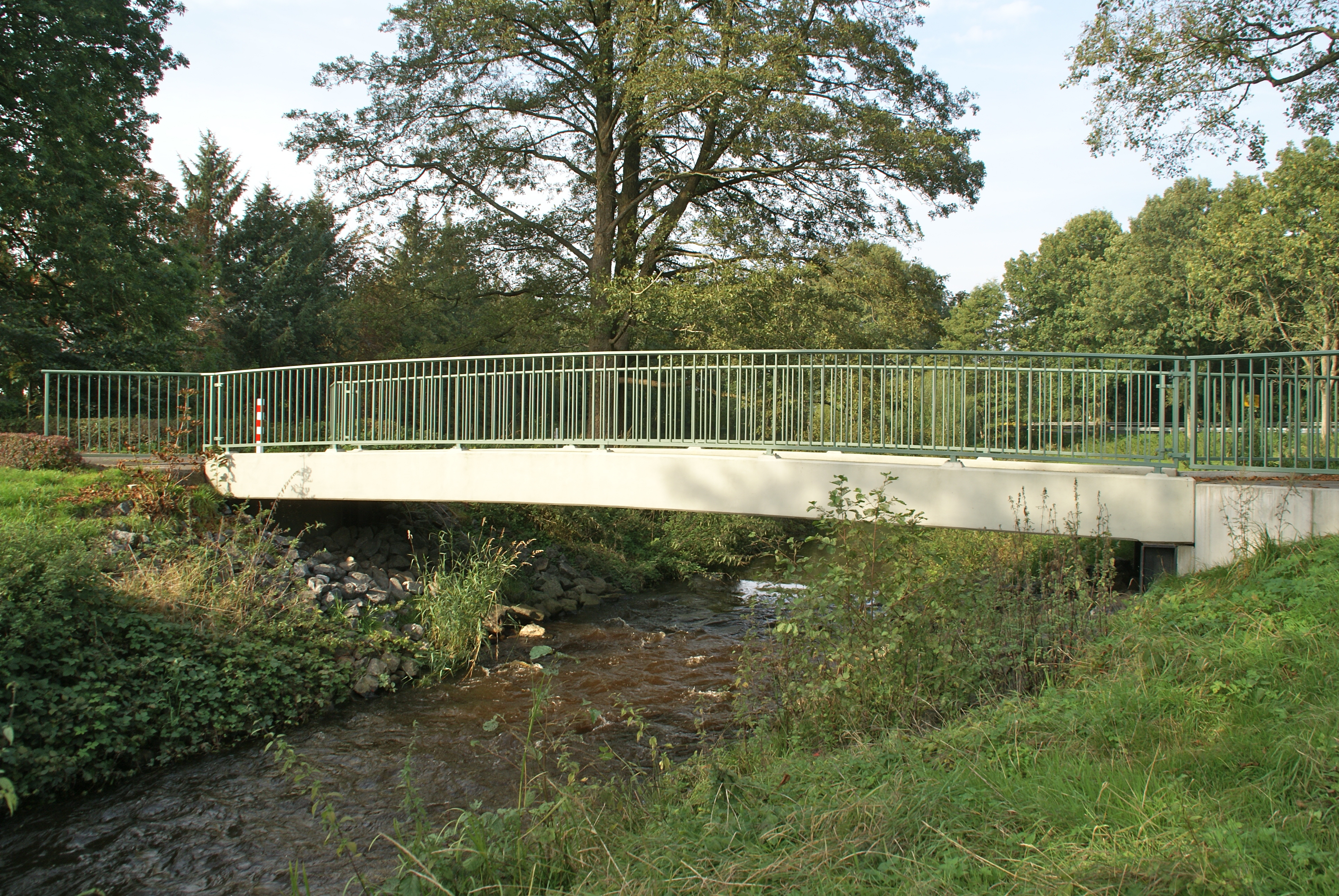 Kleinjörl (Belgium): The bridge over the river Jerrisbek in the An der Bek Street